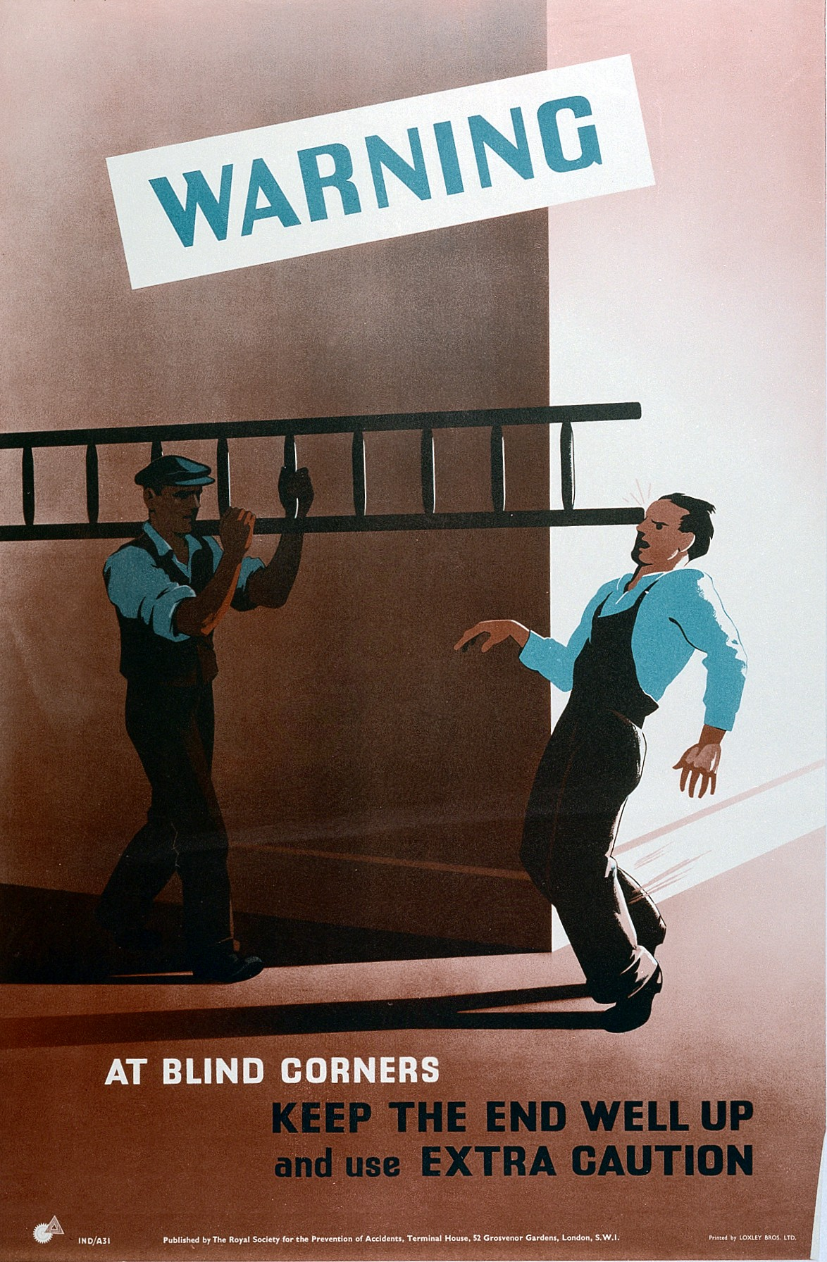 A man carrying a ladder knocks the forward end of it accidentally into the eye of a man coming round the corner towards him. Colour lithograph. Iconographic Collections Keywords: Health and Safety